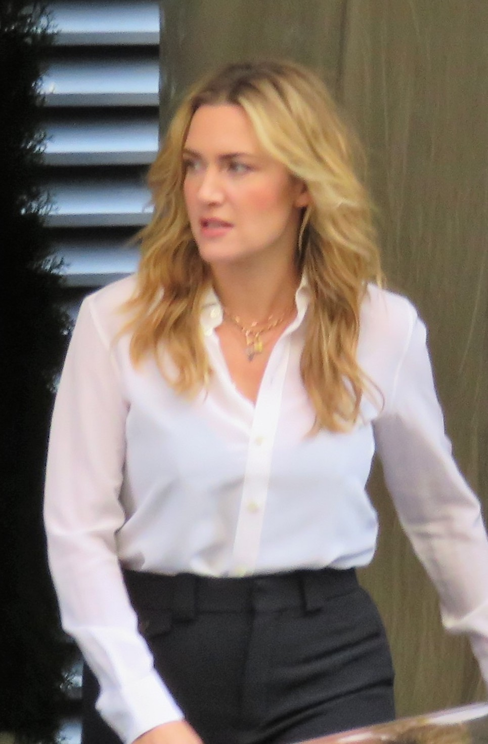 Kate Winslet at the press conference of The Mountain Between Us, 2017 Toronto Film Festival